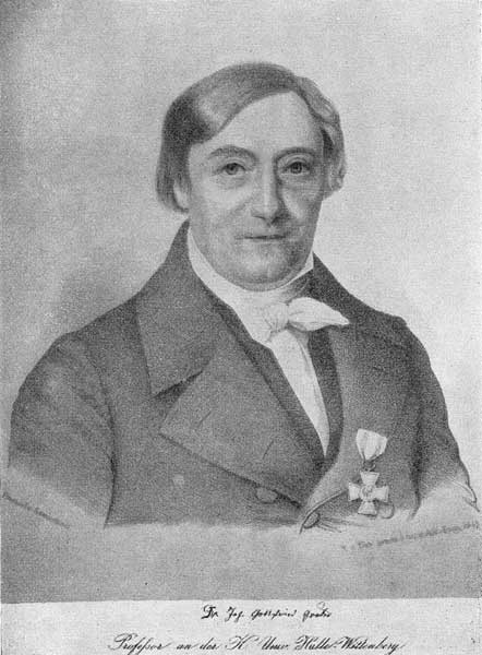 Johann Gottfried Gruber, Lithography by August Kneisel after a drawing by Albert Fulda